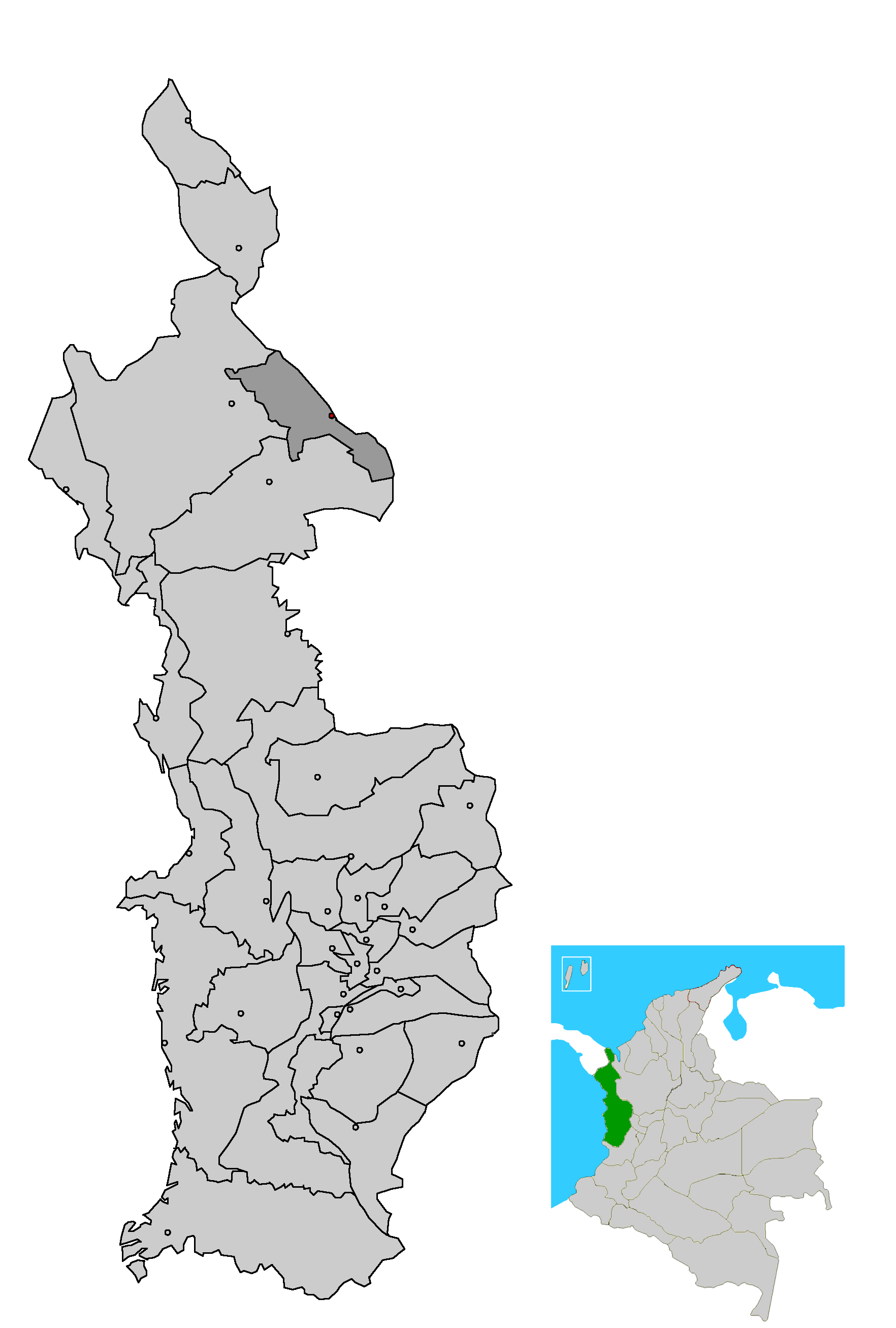 Image depicting map location of the town and municipality of Belen de Bajira in the Choco Department, Colombia